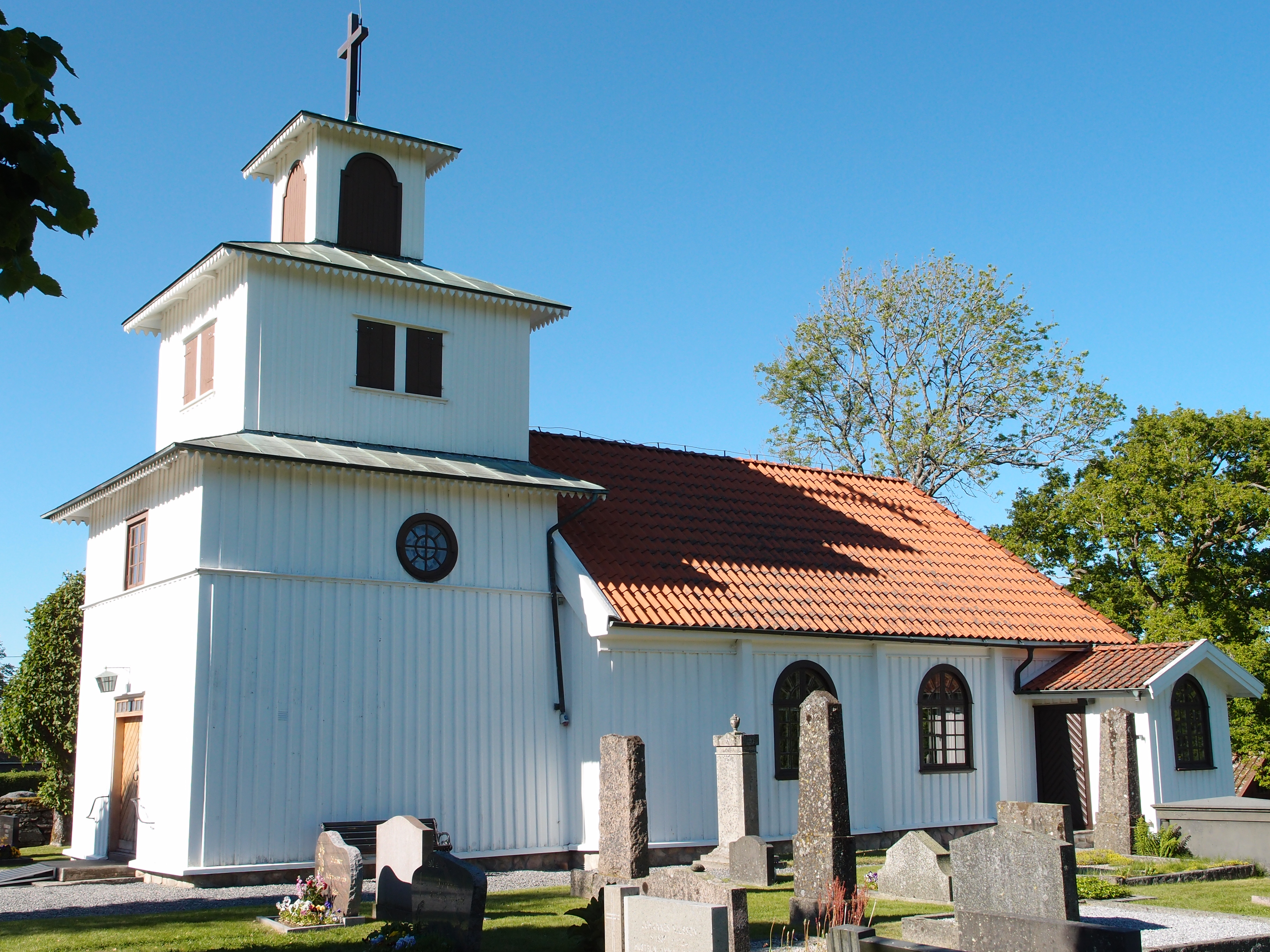 Tostared Church